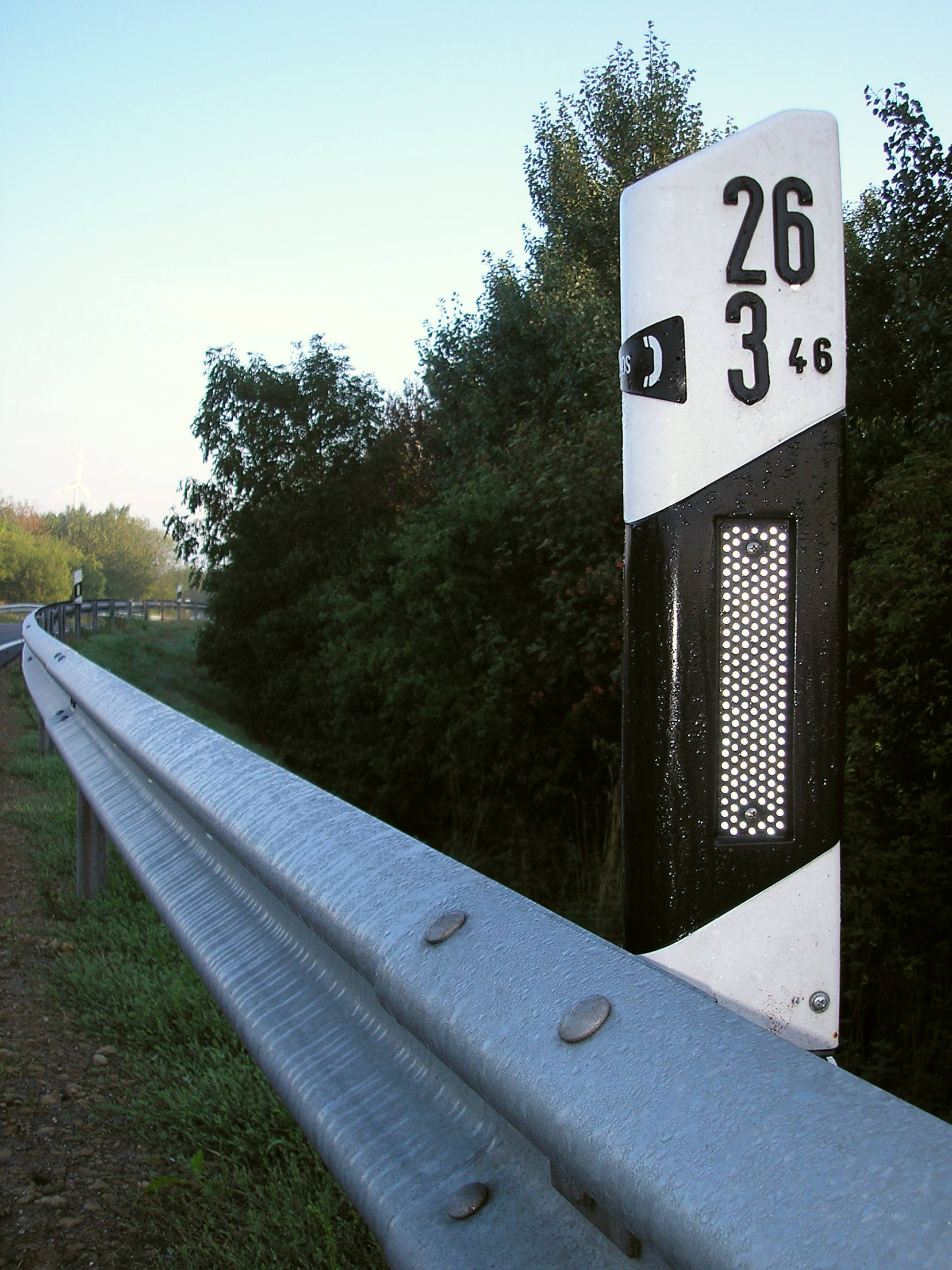 Combined roadside reflector and hectometer sign on German Autobahn.